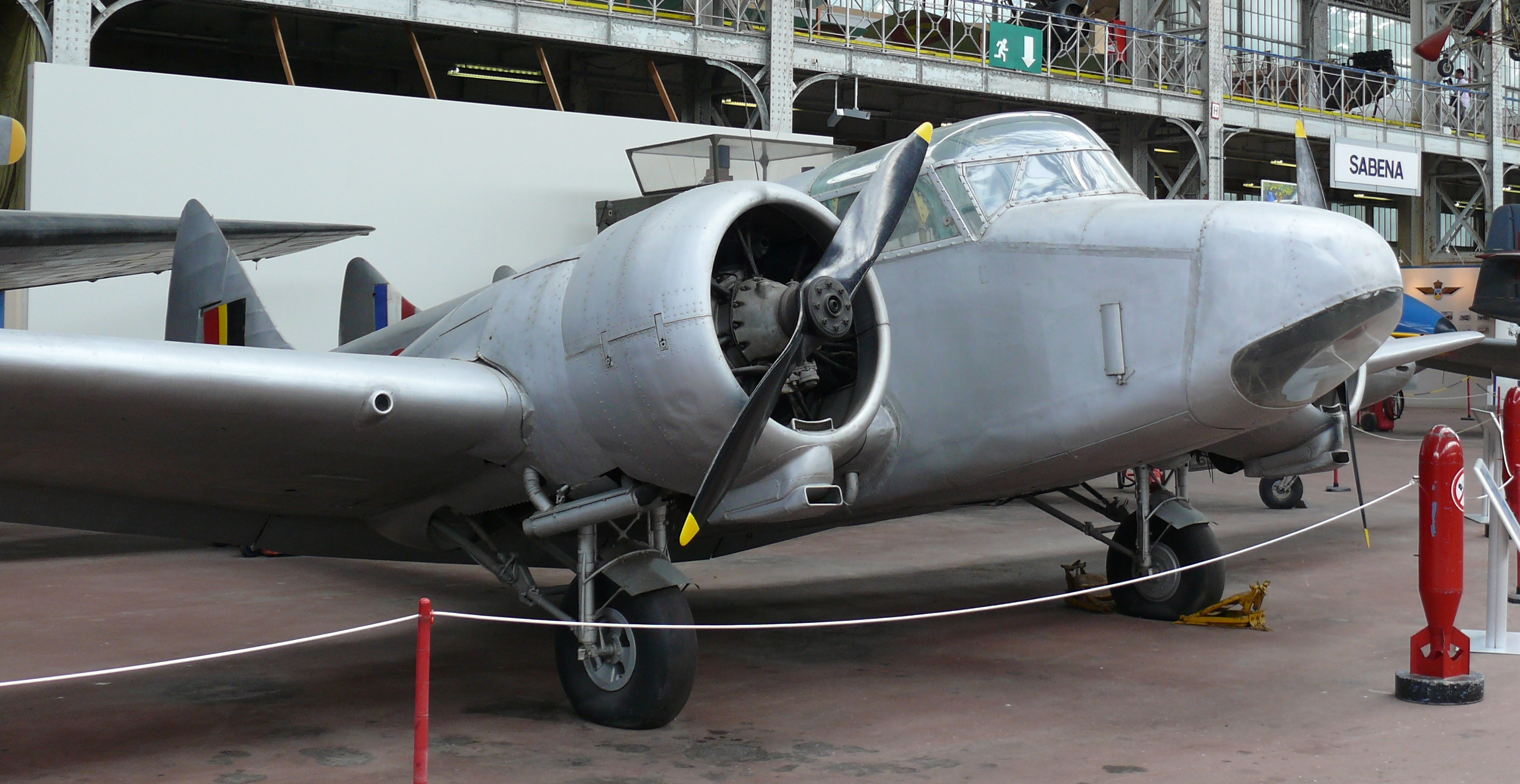 Airspeed Oxford in the Royal Military Museum at the Jubelpark, Brussels.